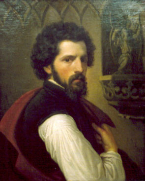 Self-portrait